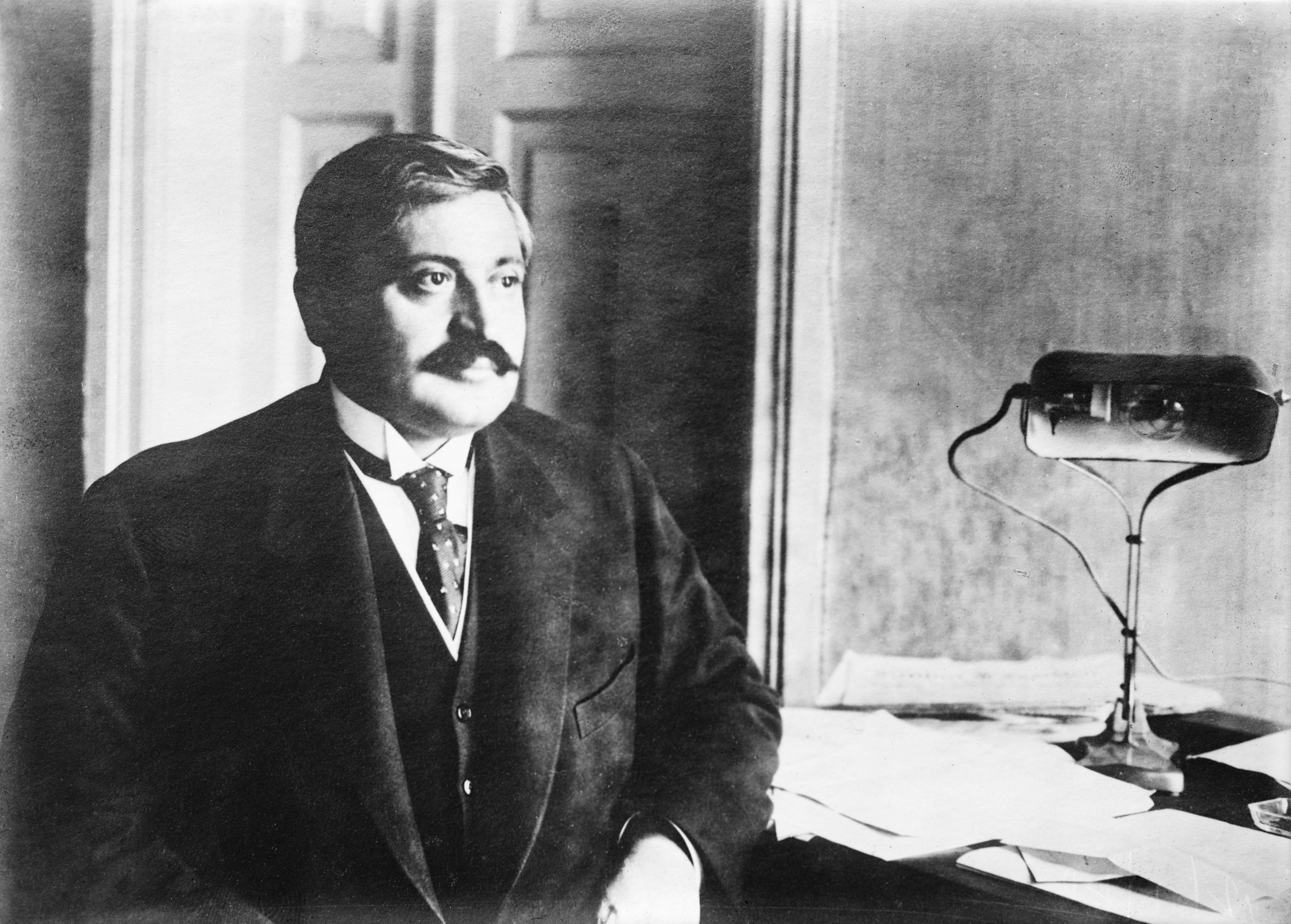 Talaat Pasha, (1874-1921)